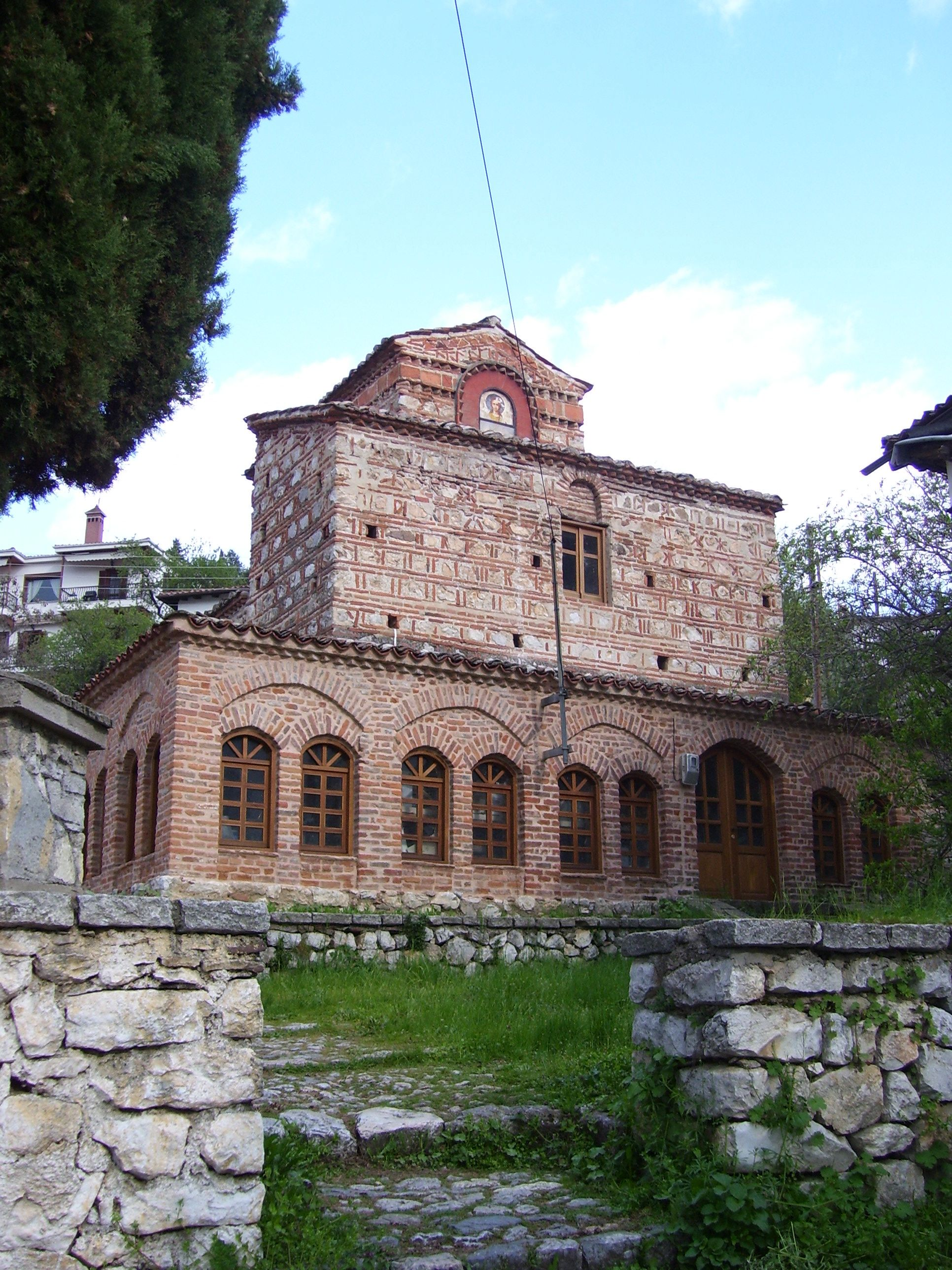 Church of „Agios Stefanos“ in Kastoria, Greece.